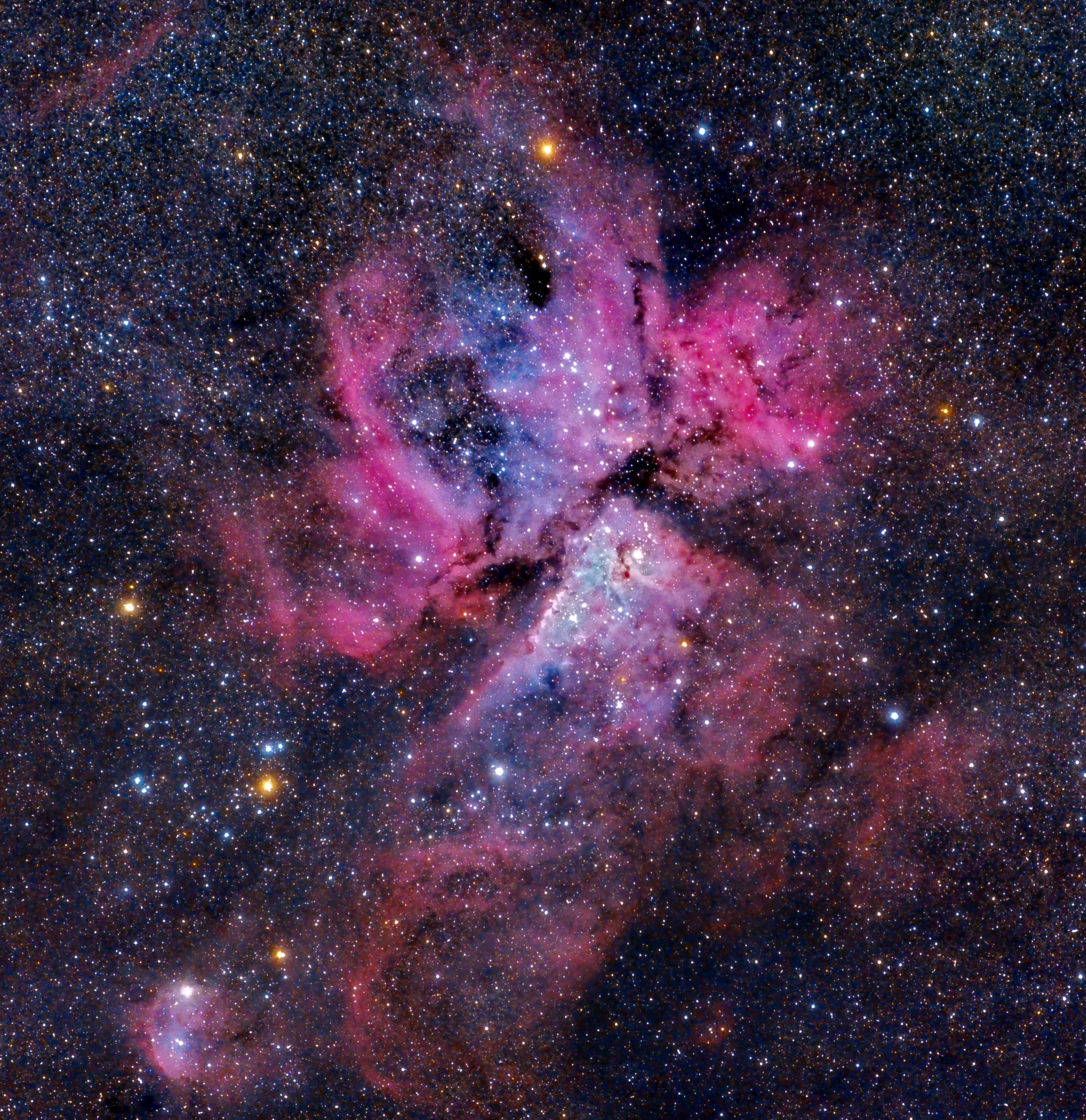 View of the Carina Nebula taken from the Astronomy Observatory of Los Molinos (OALM) (es) located in Montevideo, Uruguay. The picture is based on 9 frames of 2 minutes exposure time each with a Nikon Df and a catadioptric Nikkor 500mm f/8 lense, apart from the dark, bias and flat frames for the post-processing. For the post-processing a dedicated software for this kind of photography (PixInsight) was used that merges the images, analyses the brightness scale, reduces the noise and enables the management of saturation and dynamic range.